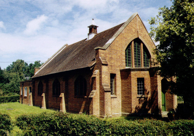 Silchester Methodist Chapel Built in 1927.